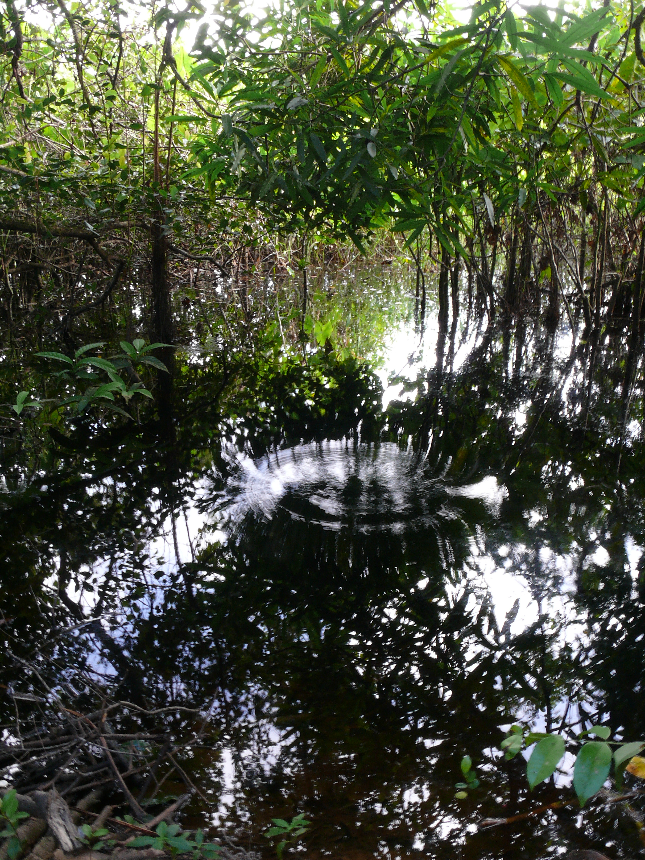 Using a longer exposure time than I should have. These are ripples from a pebble being thrown in the water.